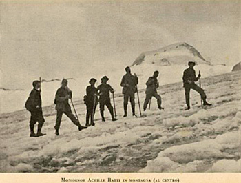 Achille Ratti (center), the future pope Pius XI., on a mountain tour in the alps